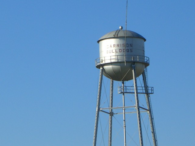 Photo by Nick Juhasz.